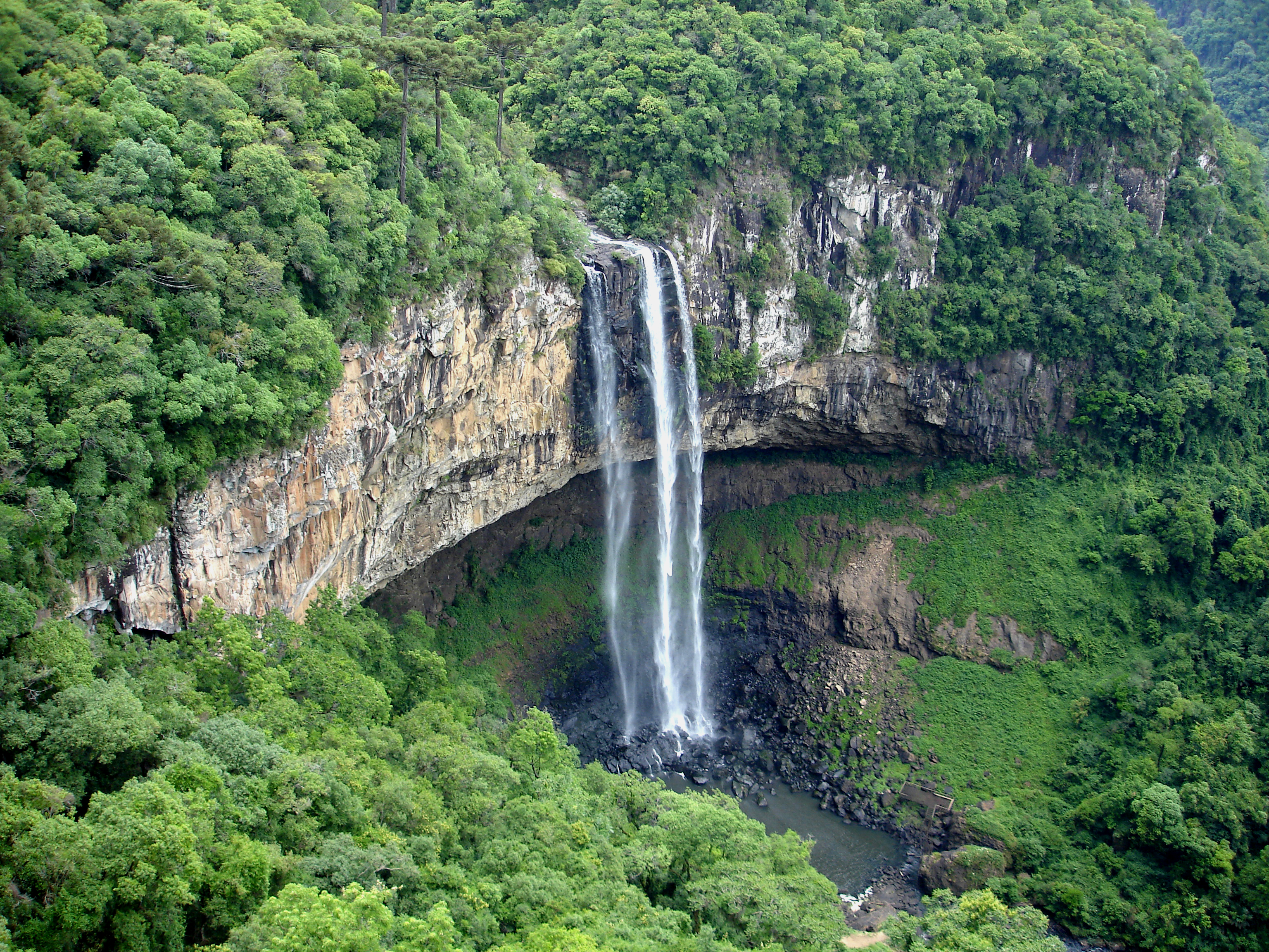 This is Cascata do Caracol (Snail waterfall), a waterfall in the Brazilian city of Canela, Rio Grande do Sul. This waterfall is located in the Parque do Caracol (Snail Park), in the outskirts of the city. It falls 131m.